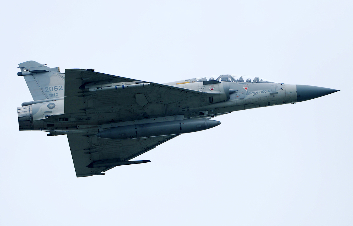 Republic of China Air Force Dassault Mirage 2000